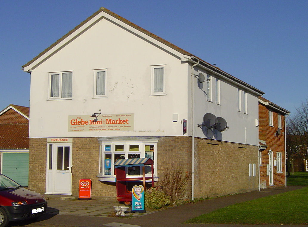 The Glebe Mini Market at The Glebe, Lawshall, Syffolk.